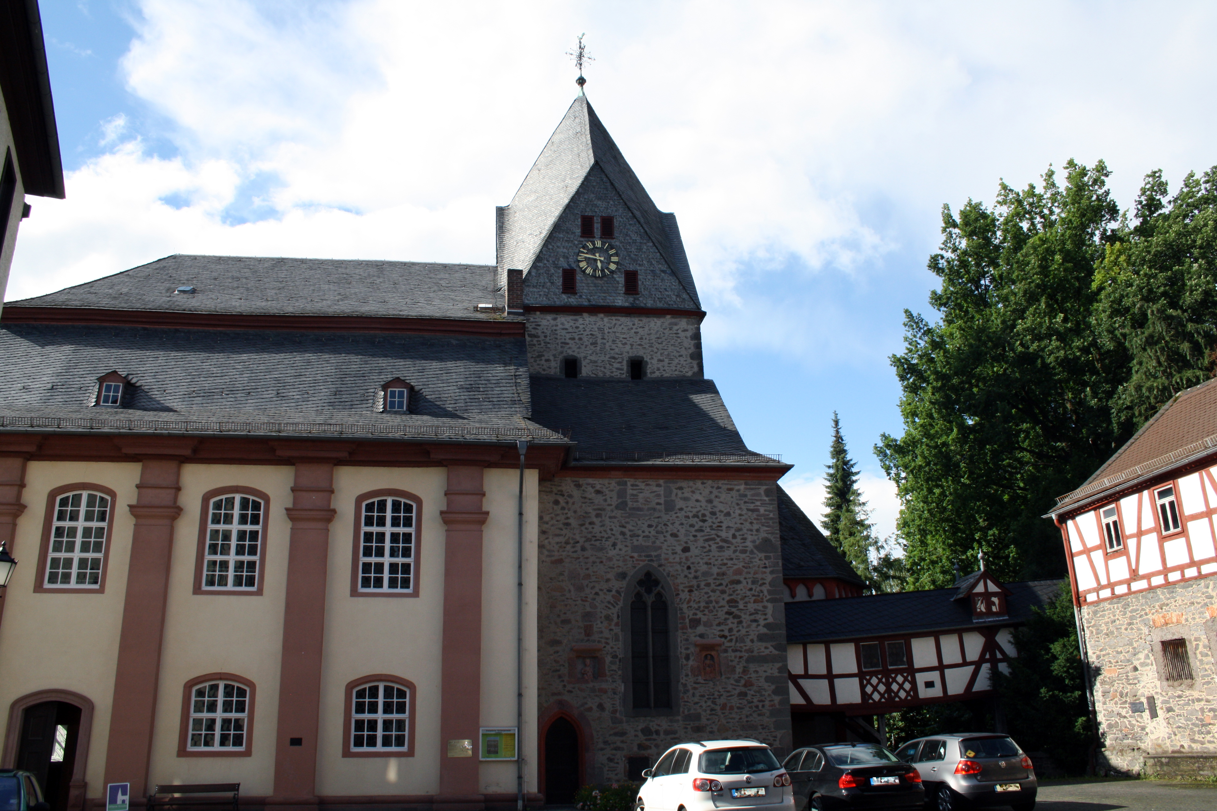 Protestant City Church of Laubach, July 2012